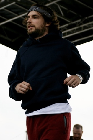 Greg Gillis (Girl Talk) at JellyNYC's Pool Party on August 23, 2009